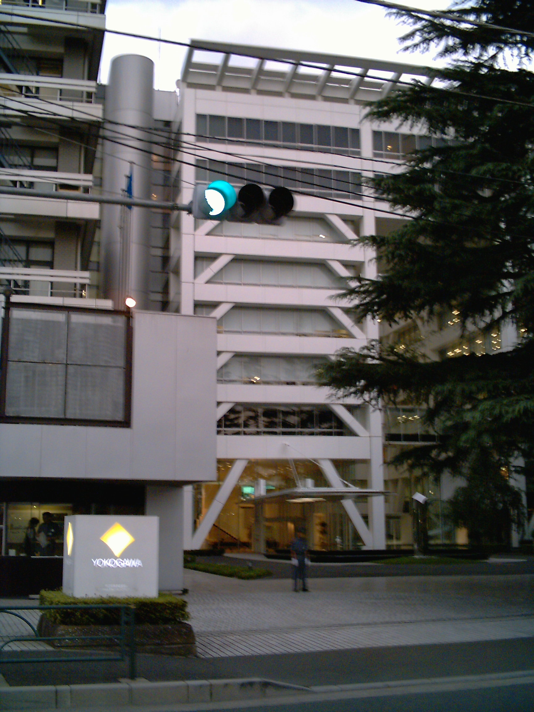 Yokogawa_office_musashino City japan photography day, 2006.9.29. photography person kici